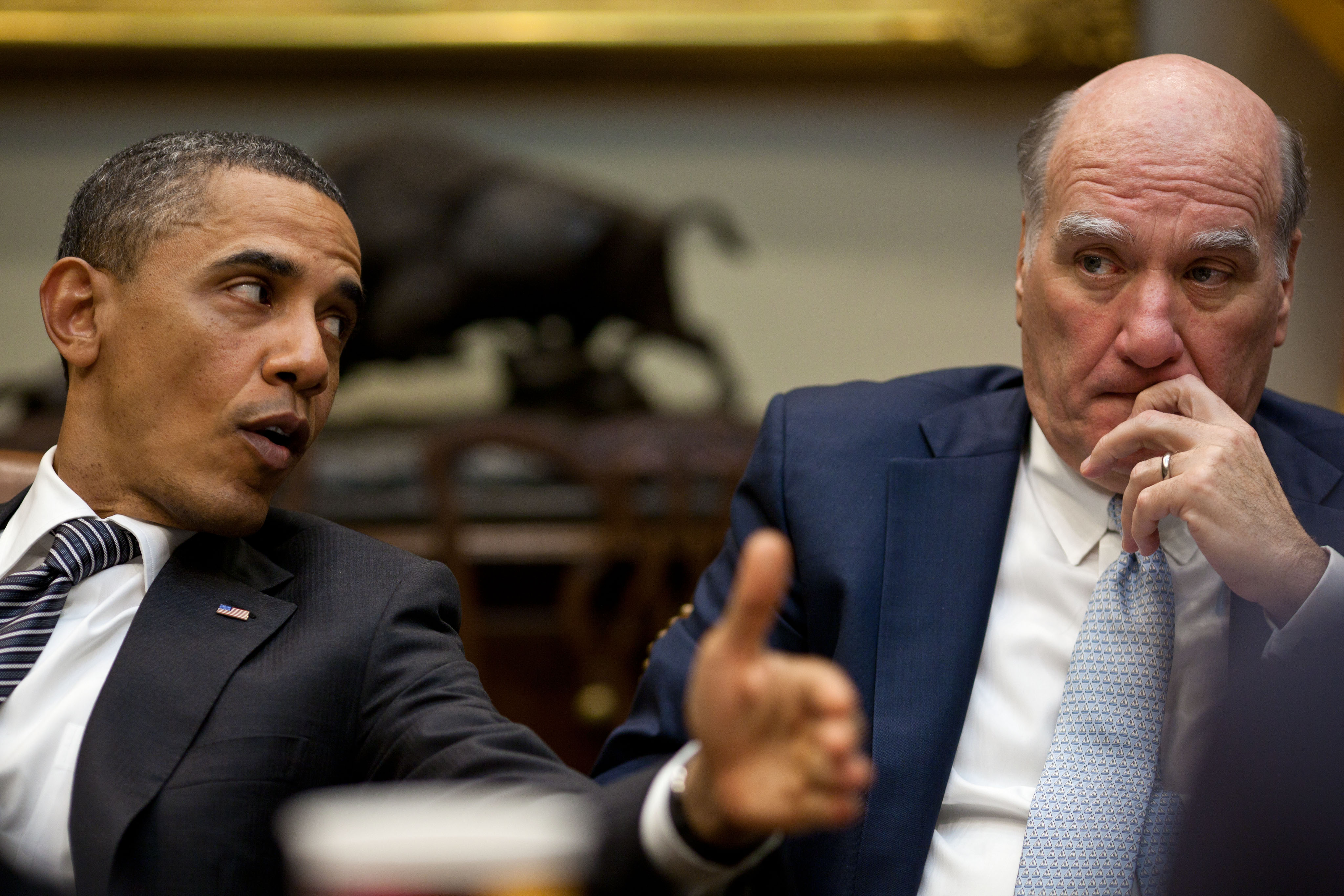 President Barack Obama holds a fiscal policy meeting in the Roosevelt Room of the White House, May 2, 2011. Chief of Staff Bill Daley is seen at right. (Official White House Photo by Pete Souza)